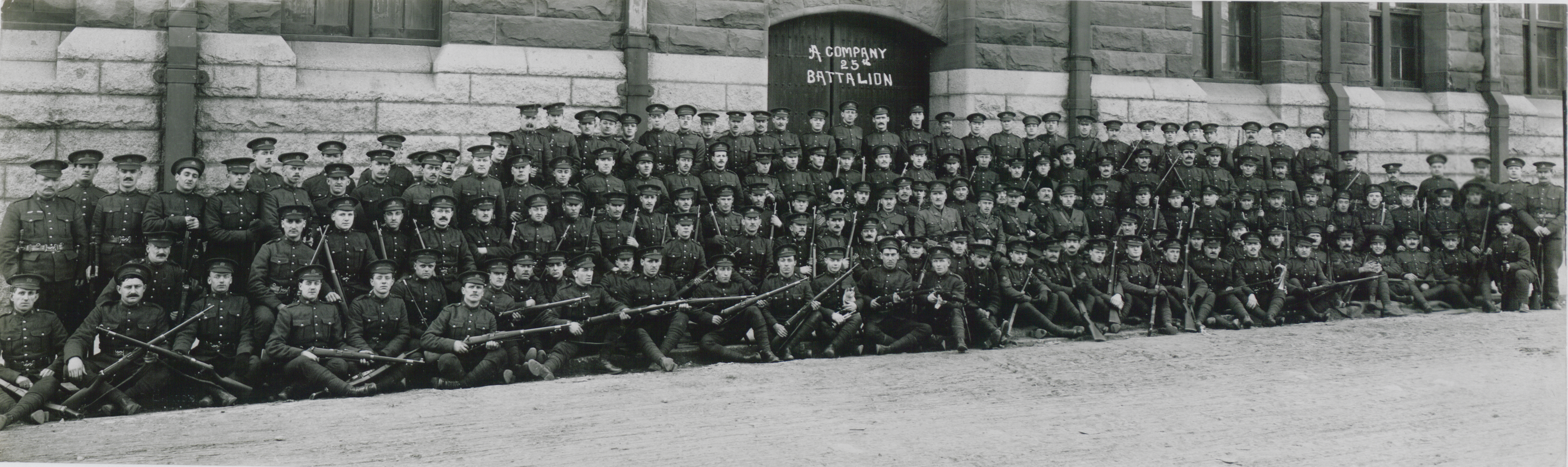 Original caption: “A Company 25th Nova Scotia Battalion.”